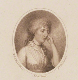 Print of Jane Stephens (c1812–1896)